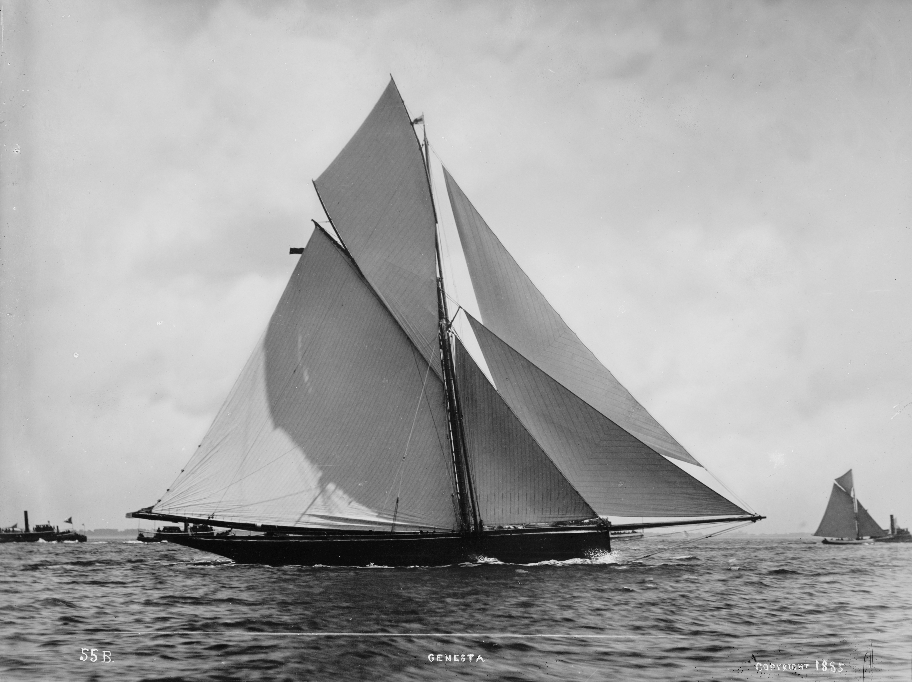 Sir Richard Sutton's cutter Genesta, 1885 challenger of the America's Cup (John Beevor-Webb design, 1884)